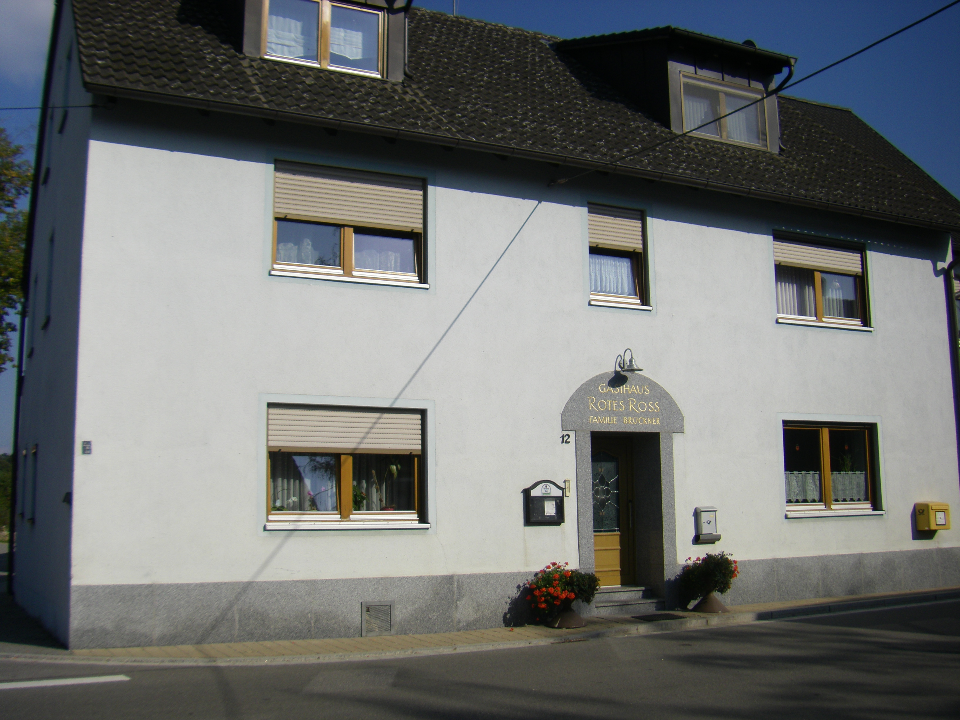 The tavern "Rotes Ross" in Suddersdorf, Windsbach